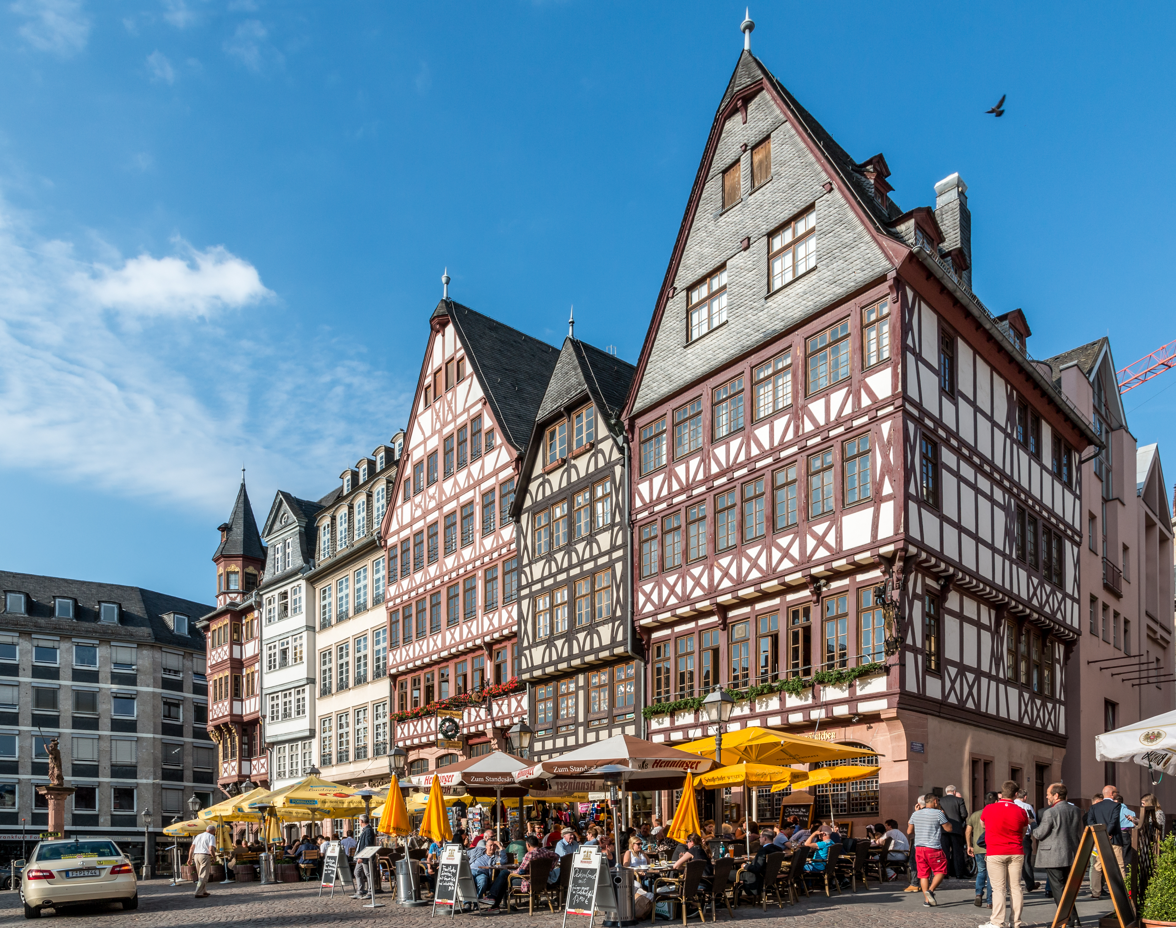 Ostzeile on Saturday Berg, Frankfurt am Main, Hesse, Germany This is a photograph of an architectural monument.It is on the list of cultural monuments of Frankfurt am Main